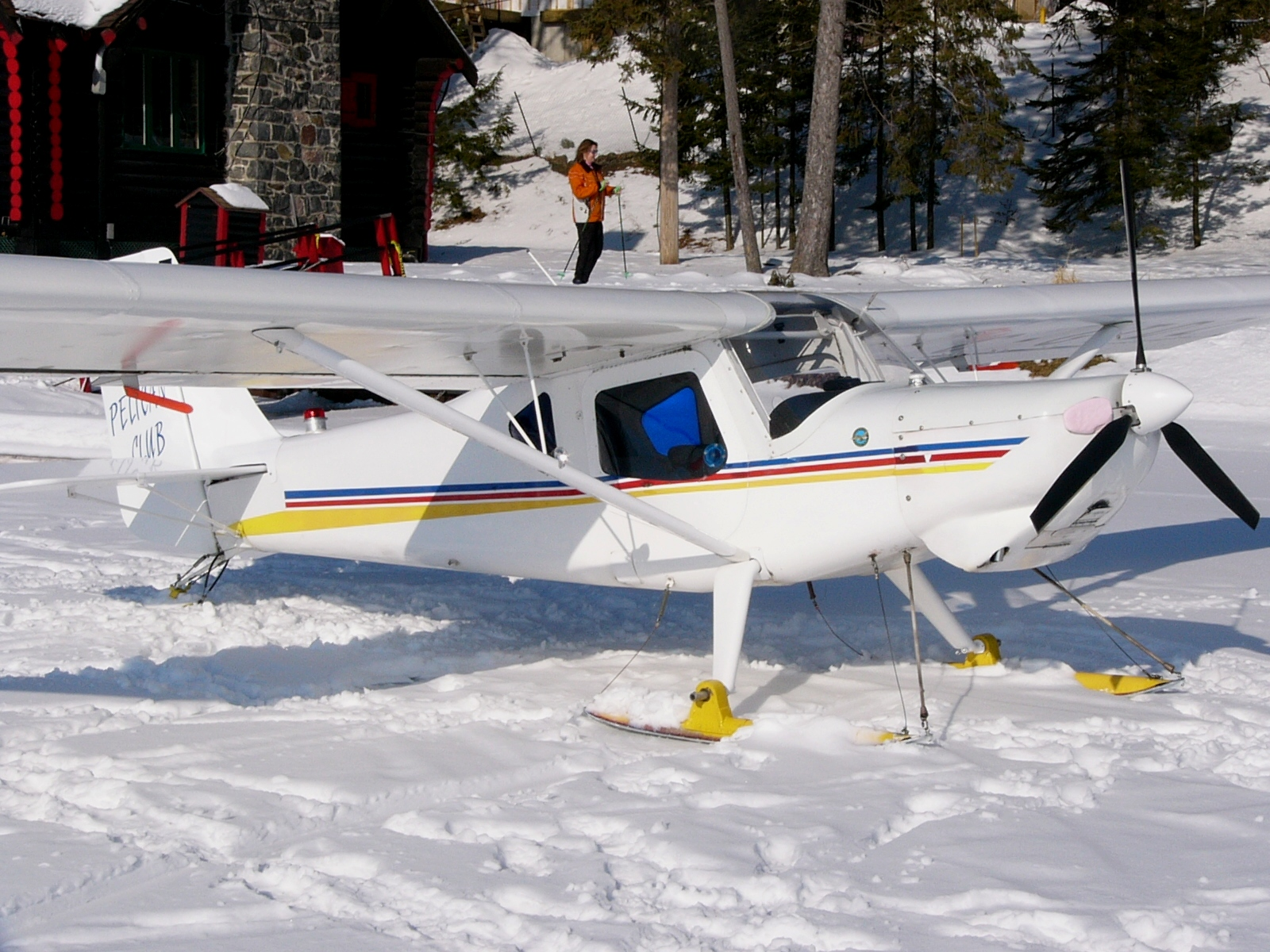 A Pelican Club amateur-built aircraft at the Montebello, Quebec, Canada, Challenger fly-in